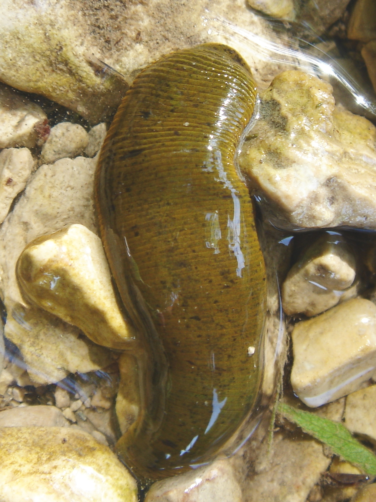 A leech (probably Haemopis sanguisuga).